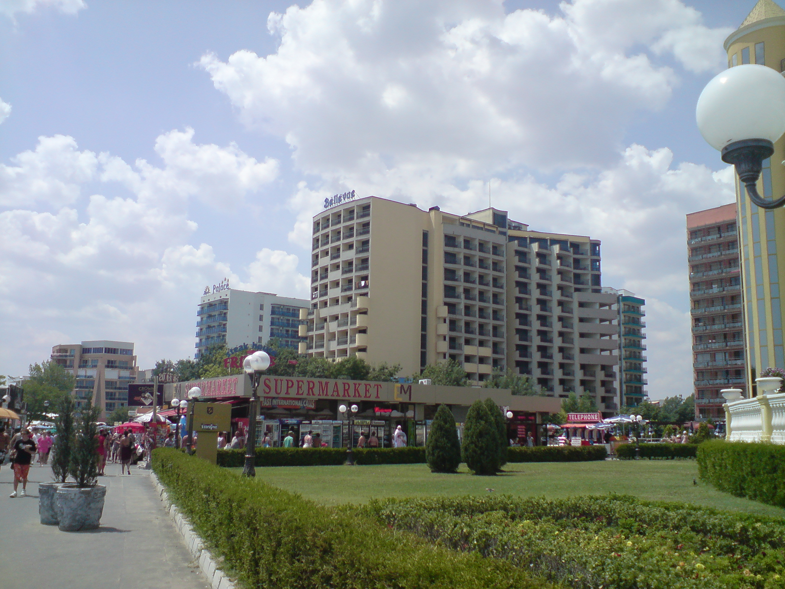 Sunny Beach, Bulgaria, july/august 2008